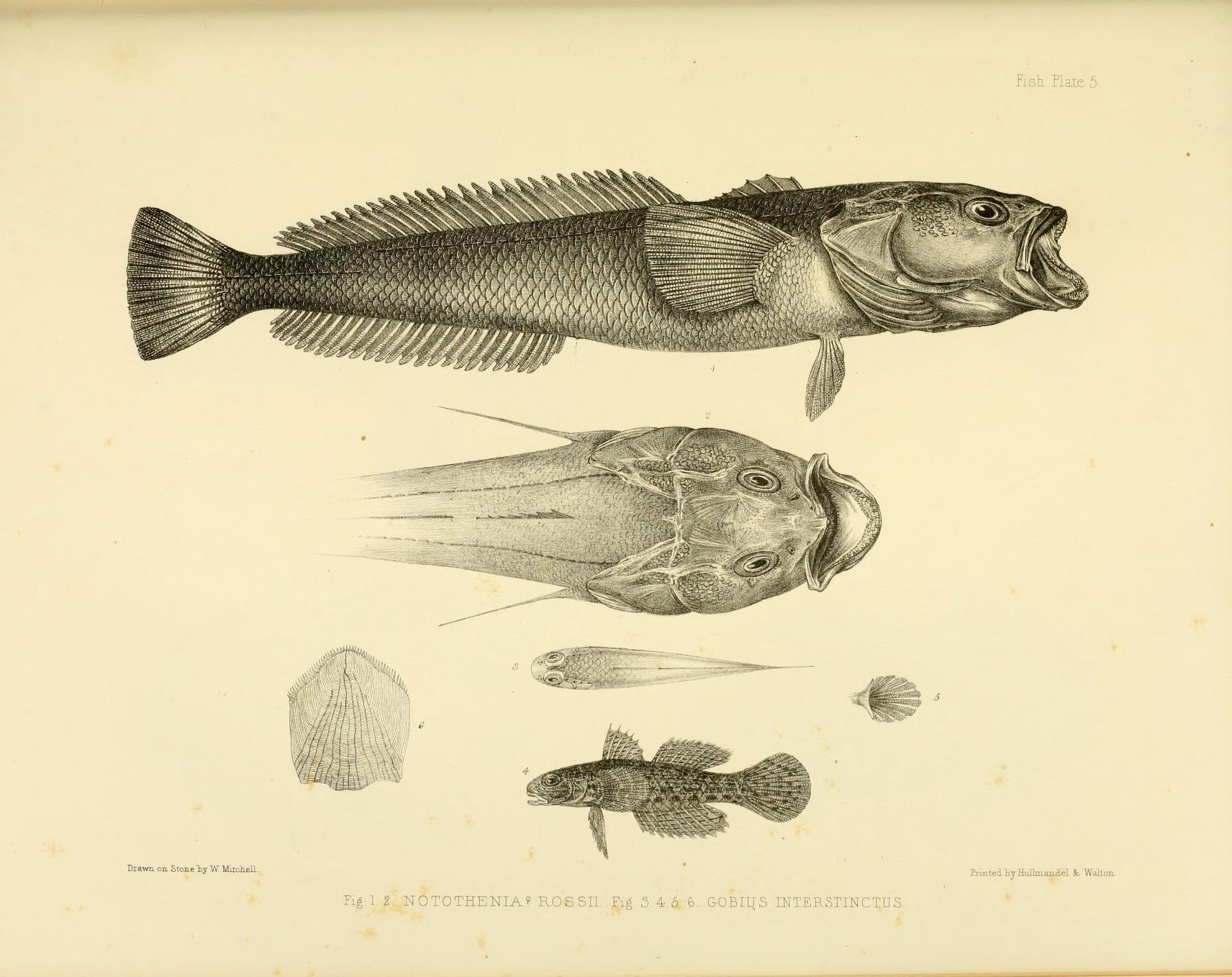 1. & 2. Notothenia rossii, 3.-6. Istigobius ornatus syn. Gobius interstinctus